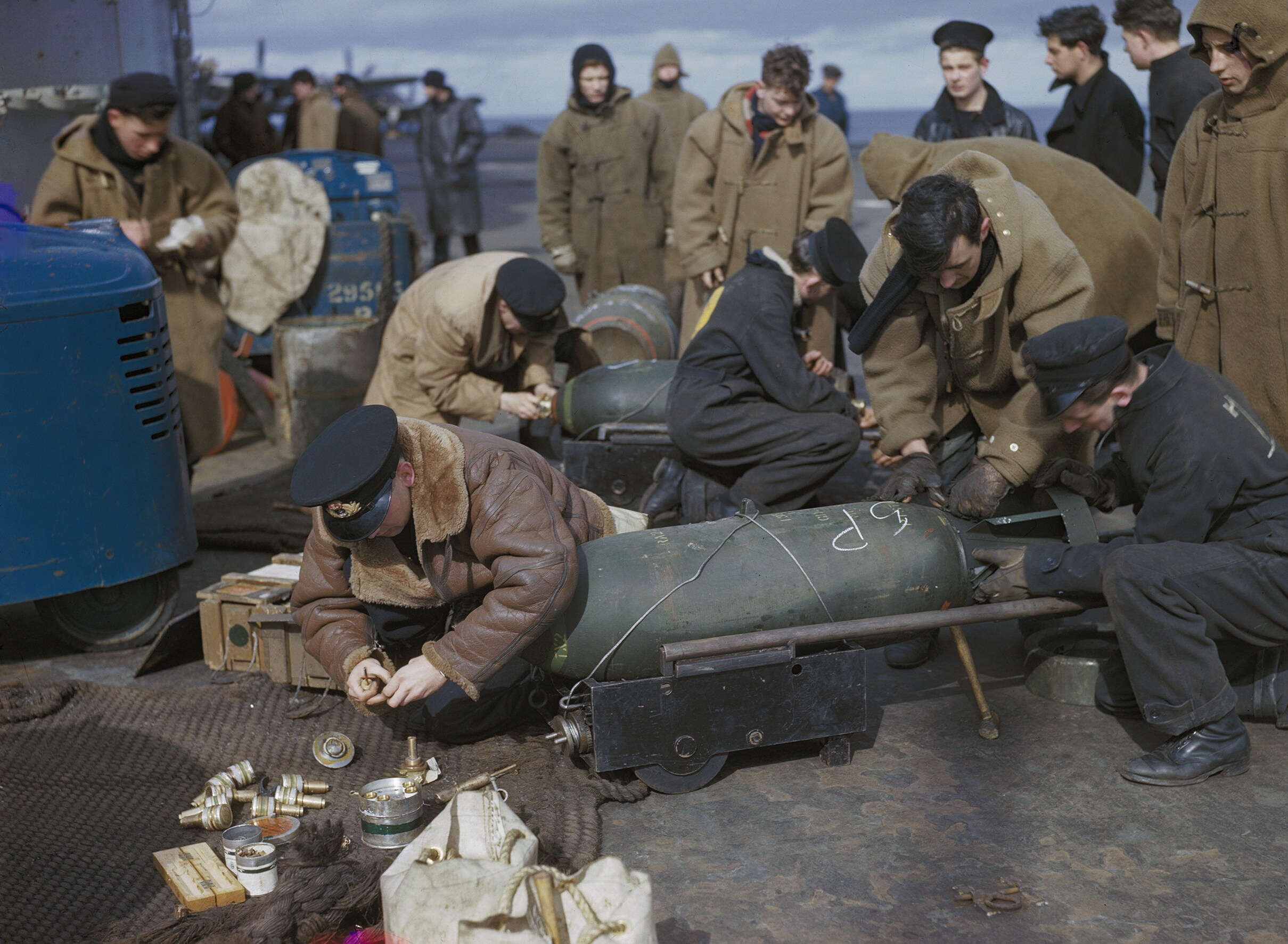 Fleet Air Arm personnel fusing bombs for Fairey Barracudas on the flight deck of HMS VICTORIOUS, before Operation 'Tungsten', the attack on the German battleship TIRPITZ in Alten Fjord, Norway, April 1944. Fleet Air Arm personnel fusing bombs on the flight deck of an aircraft carrier. The bombs were then loaded onto Barracuda aircraft which attacked the German battleship TIRPITZ in Alten Fjord, Norway.